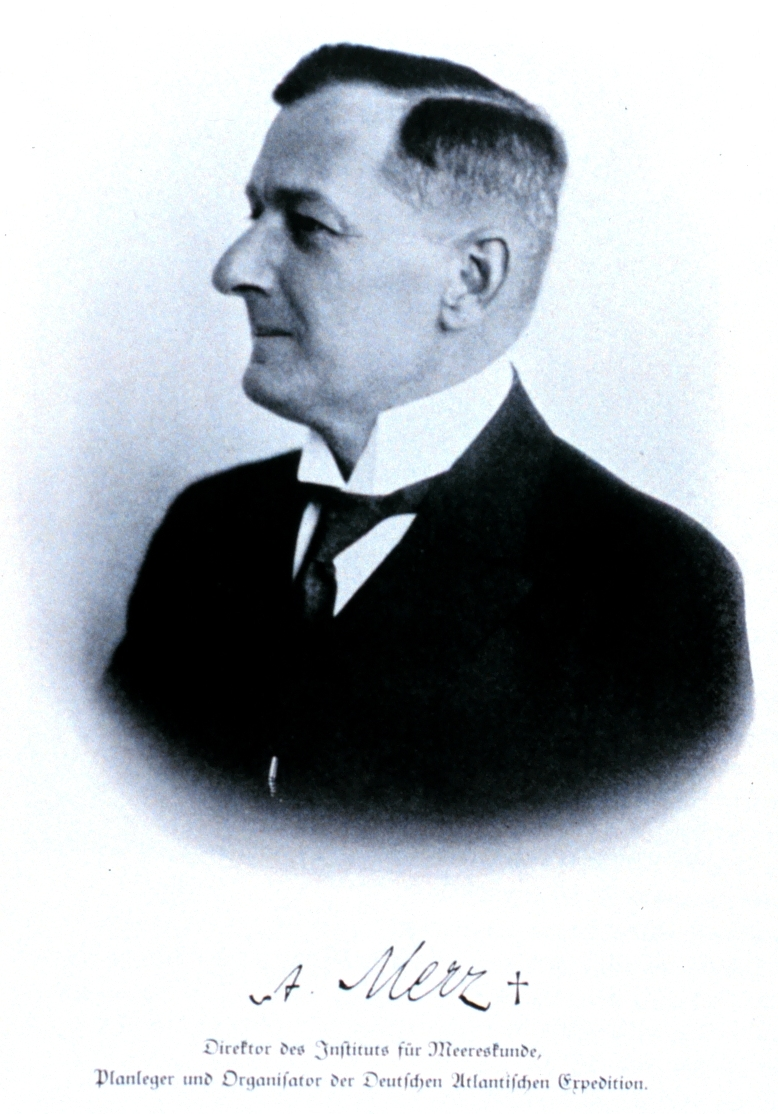 Alfred Merz